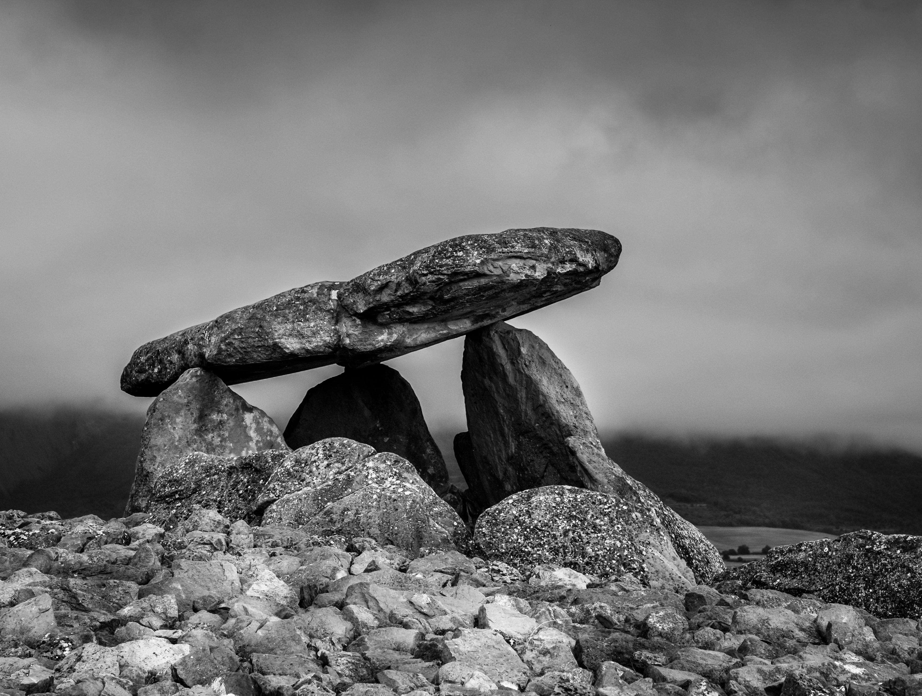 Dolmen Chabola de la Hechicera ("The Sorceress' hut") in Elvillar. The height of the stone blocks is about 1,5-2 m. Álava, Basque Country, Spain